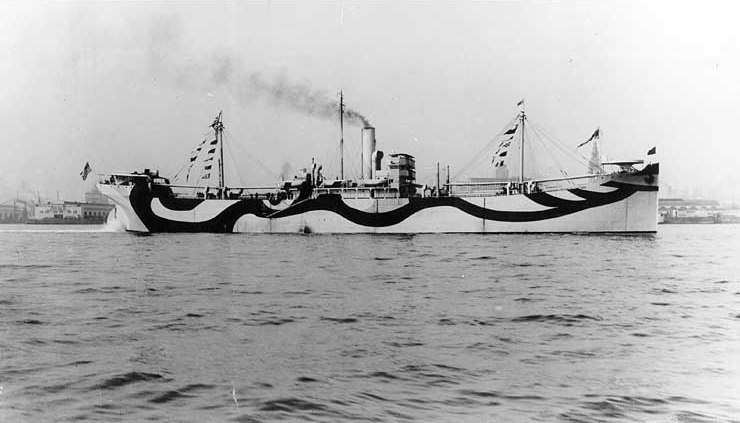 U.S. Navy cargo ship USS Zirkel (ID-3407) on builder's trials near Oakland, California.